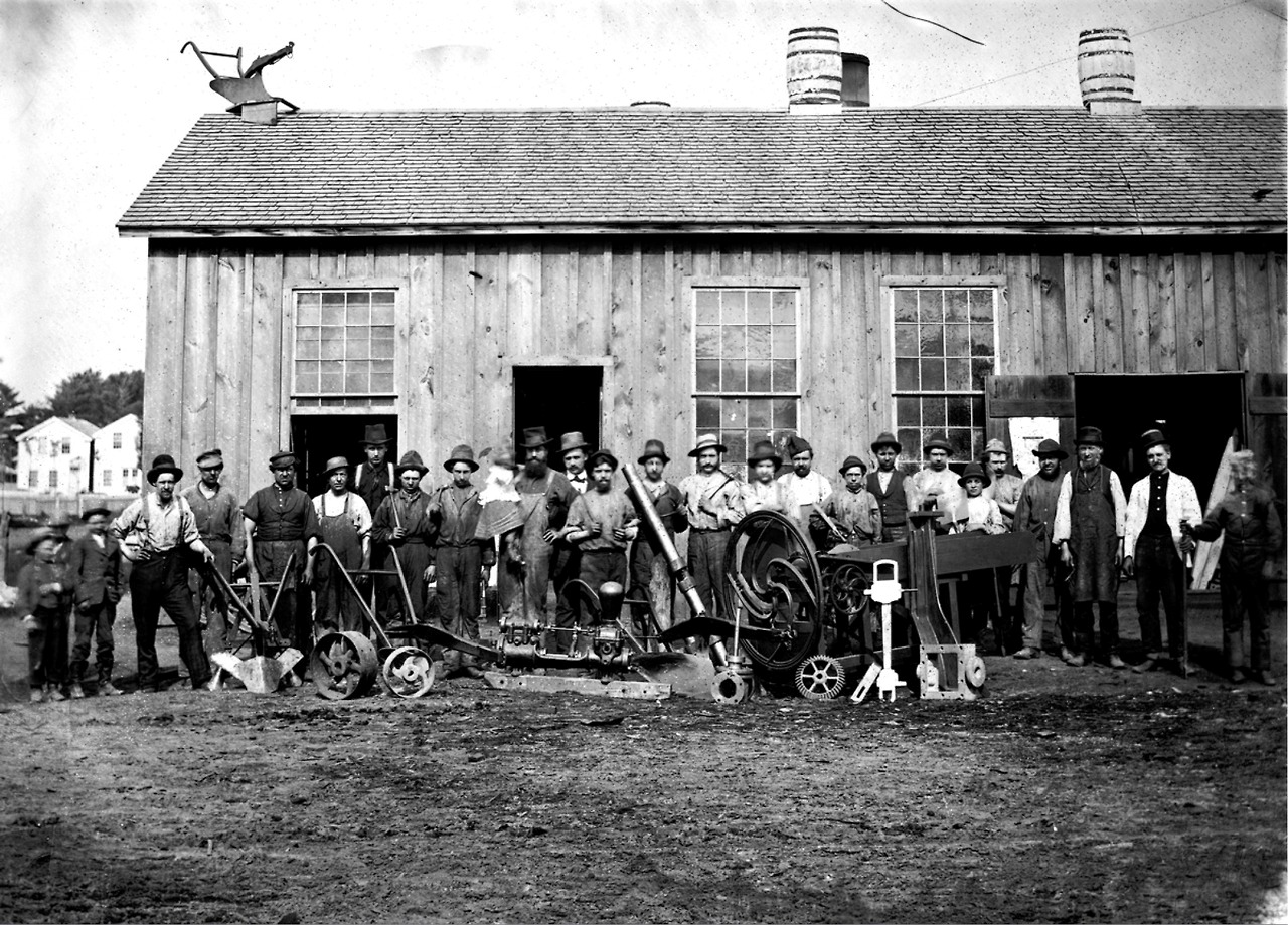 Kohler & Silberzahn Co 1873-1878, 1st Kohler Co facility Sheboygan